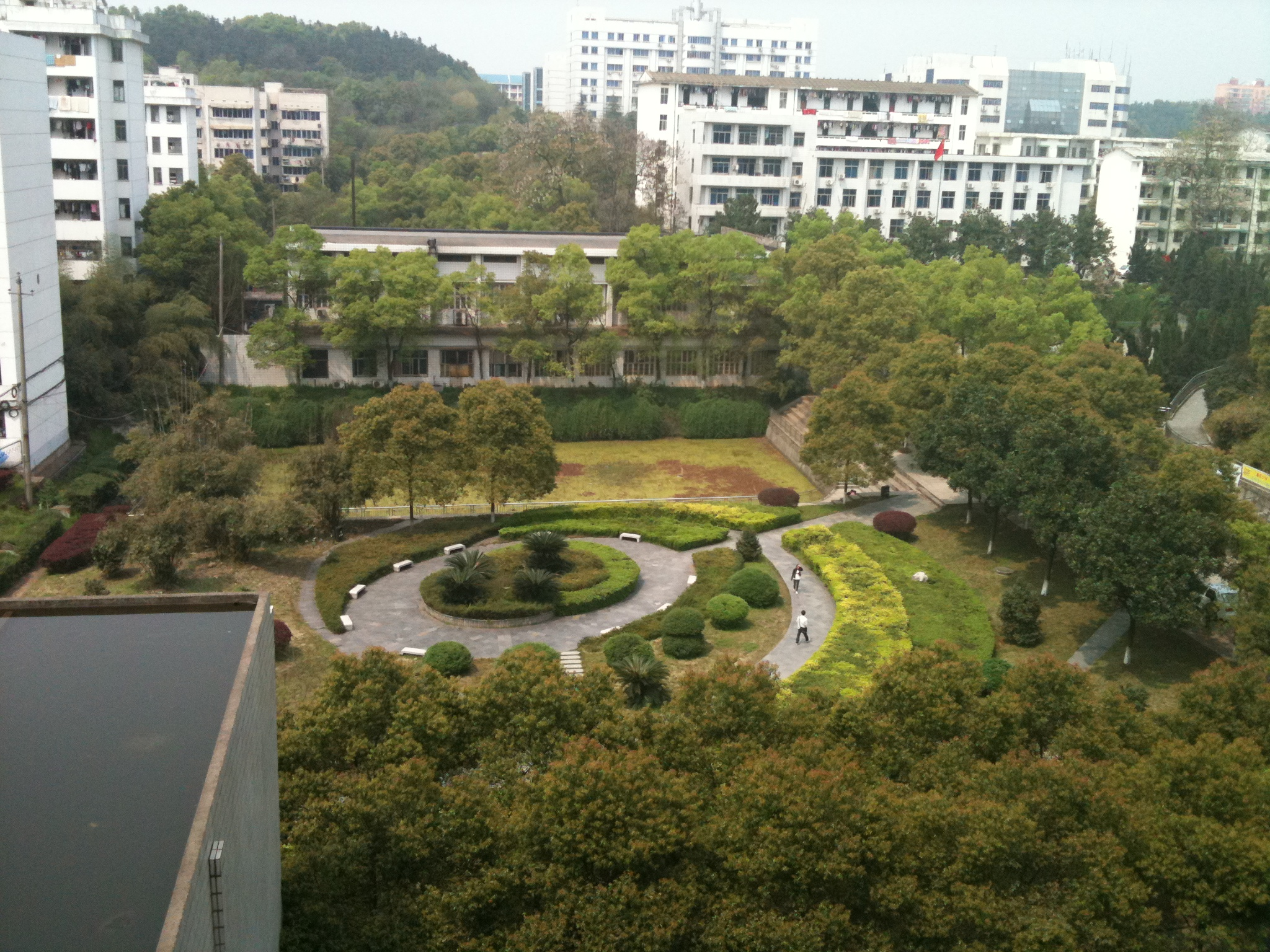 A view of Changsha University from the Ning Jing Building